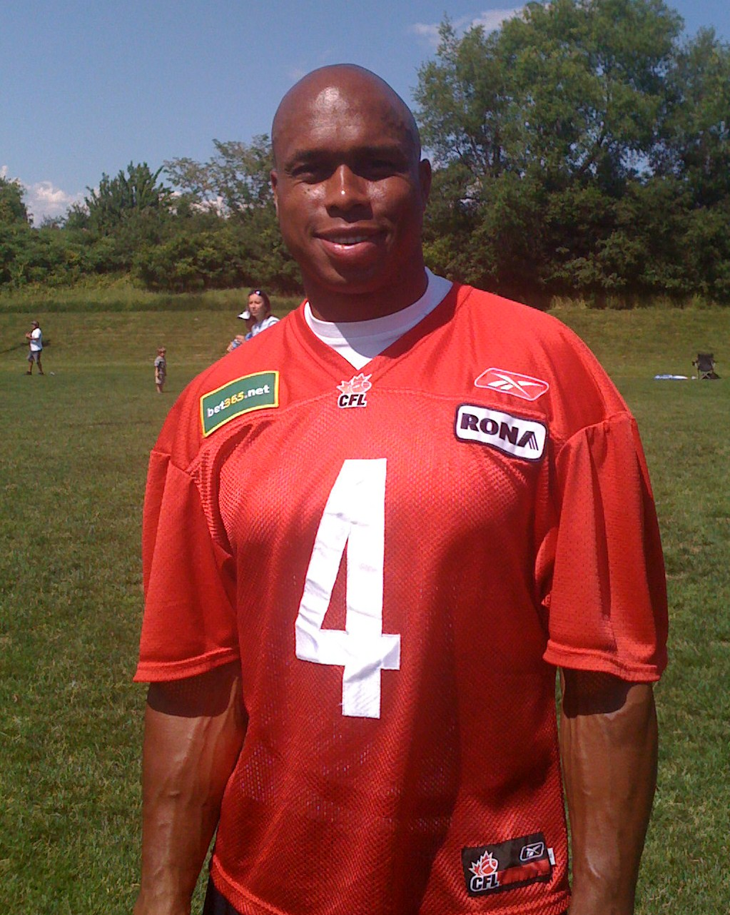 Toronto Argonauts player Kerry Joseph